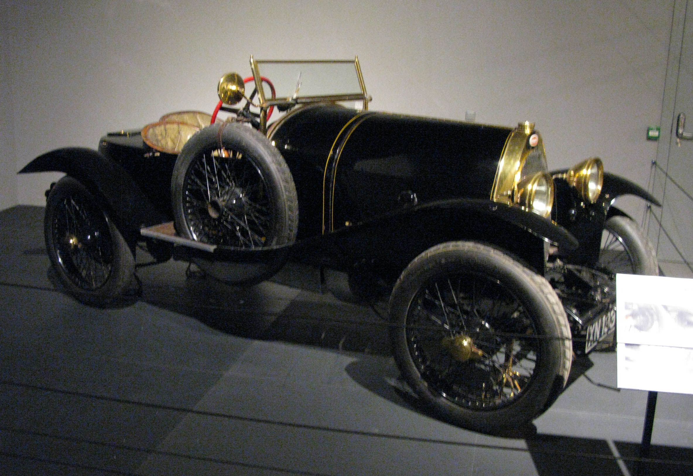 1913 Bugatti Type 18